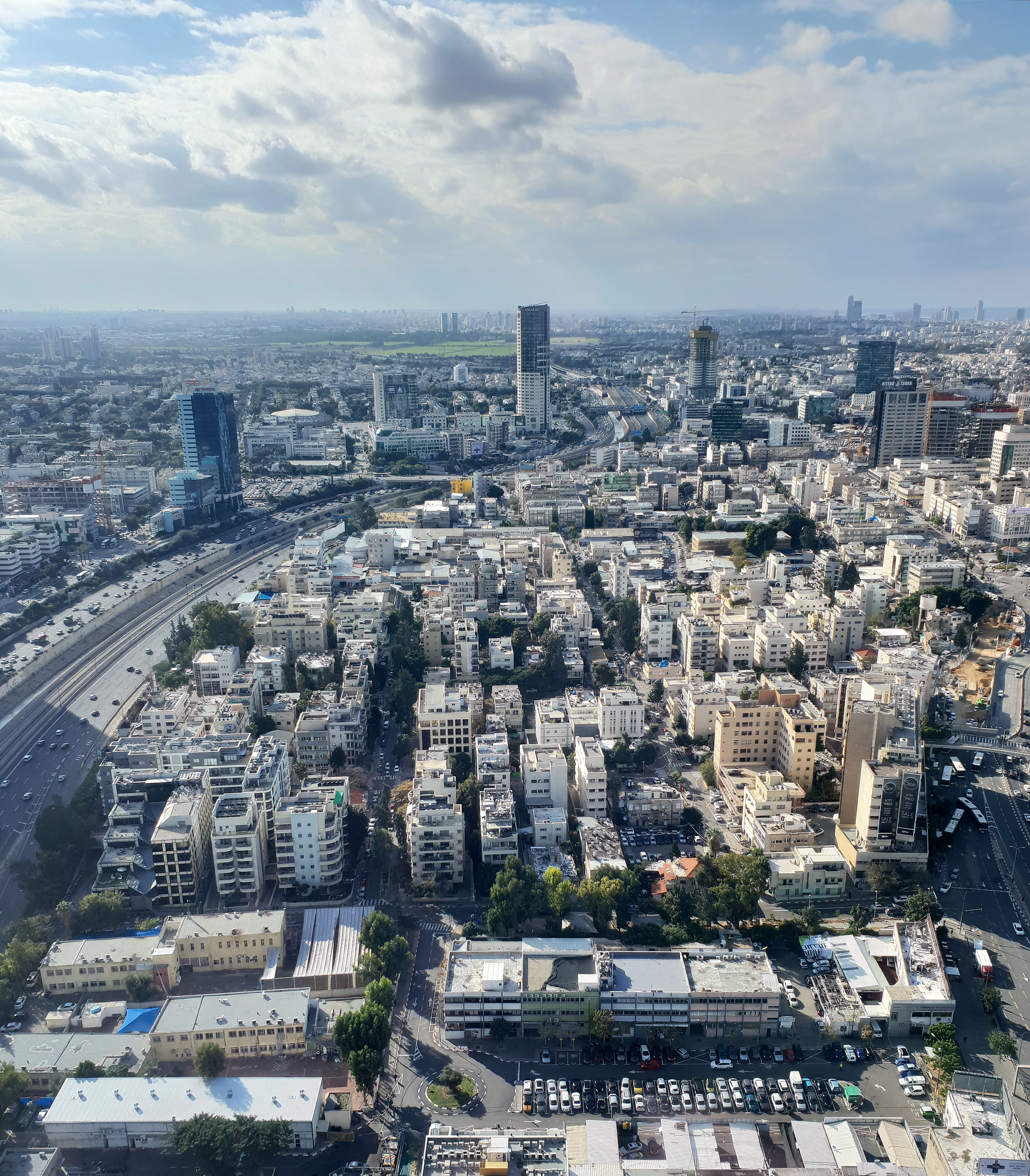 Montefiore neighborhood, Tel Aviv. Taken from Azrieli Center Triangular Tower.